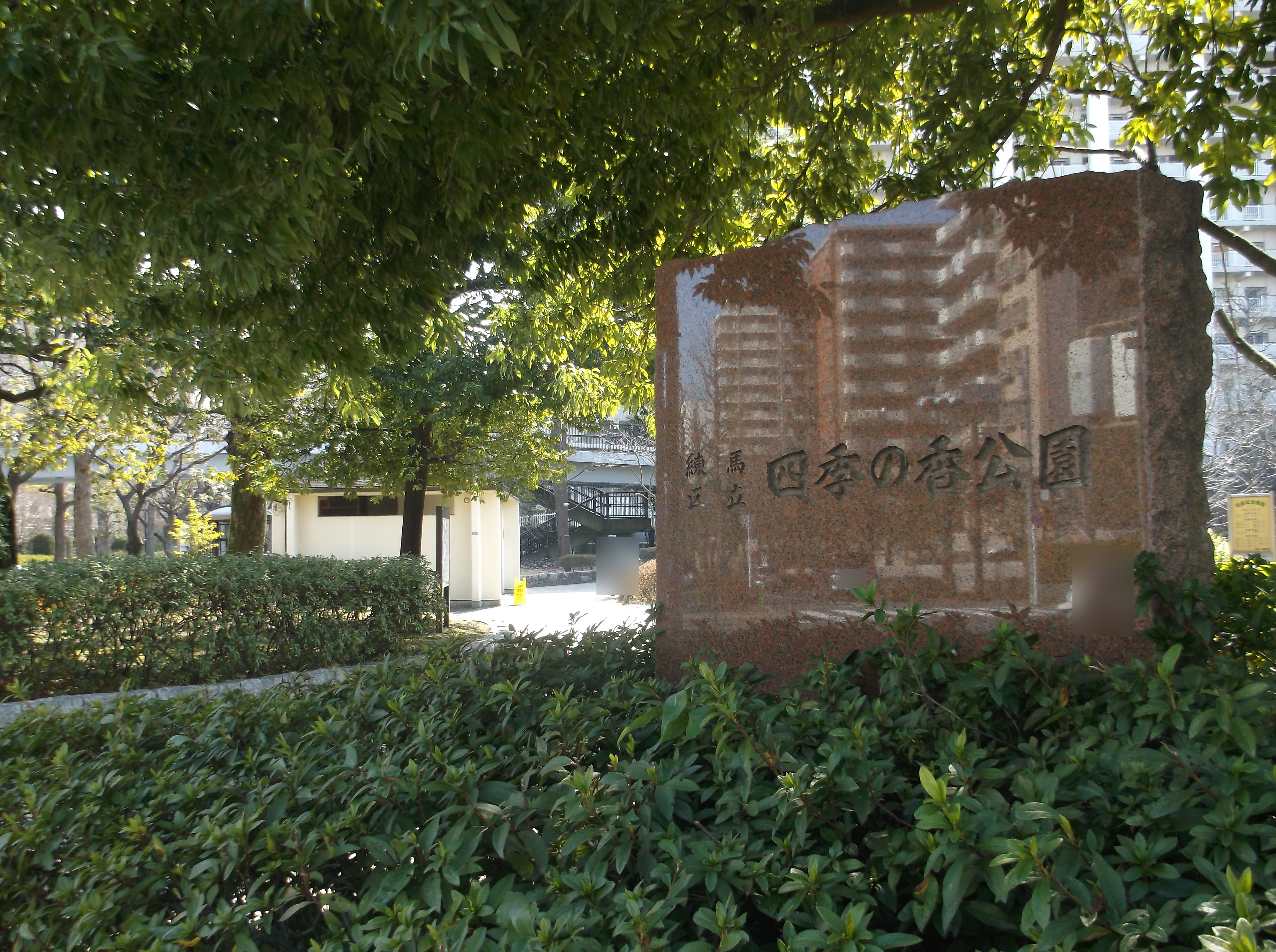 A photo of "Shiki no Kaori(Four Season's Fragrance) Park",Hikarigaoka,Nerima-ku,Tokyo,Japan.